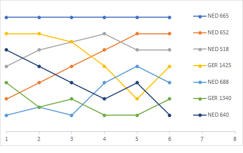 O-Jolle positions during the 2018 Vintage Yachting Games